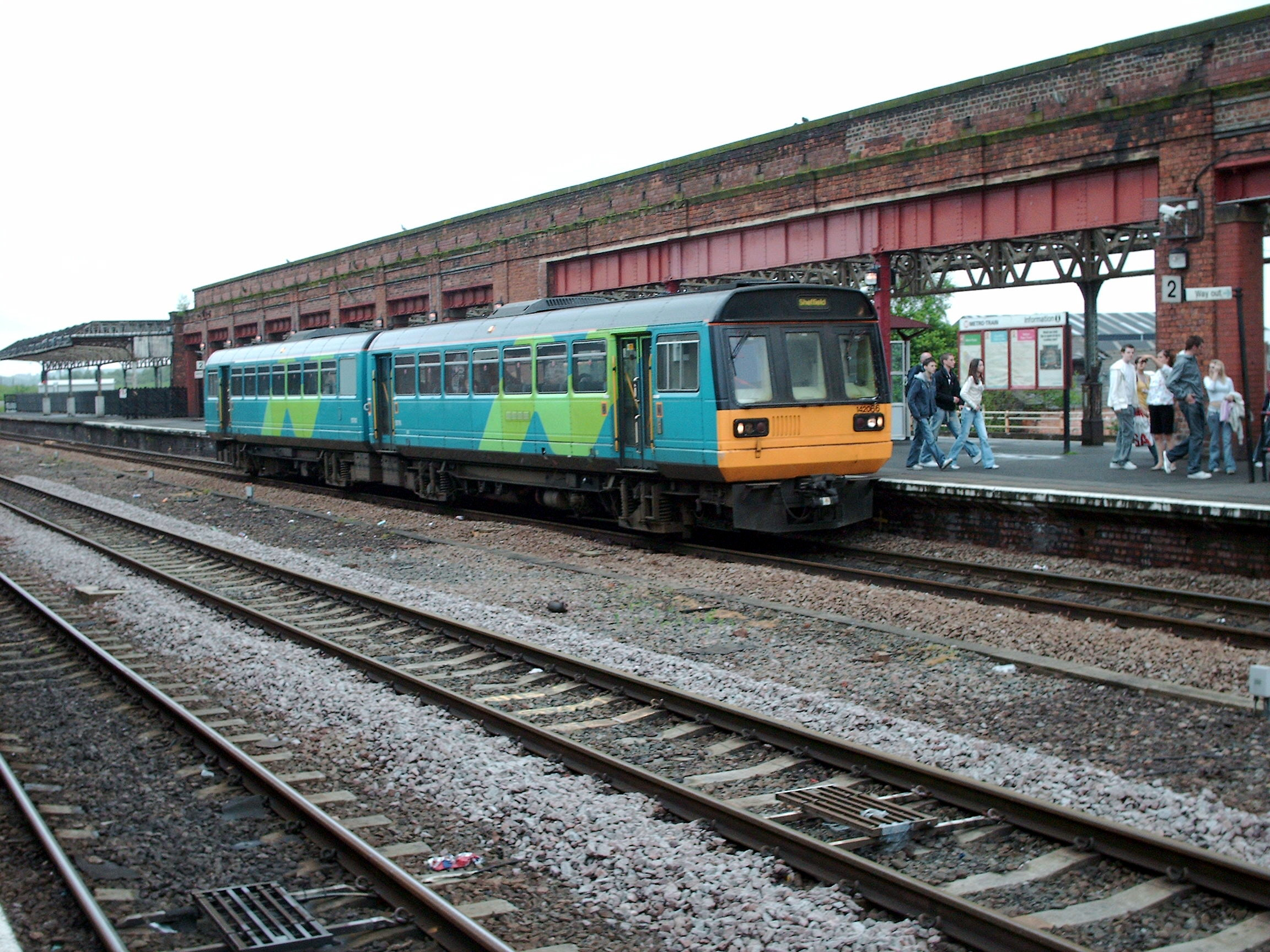 142066 at platform 2 of Wakefield Kirkgate railway station, West Yorkshire, England.